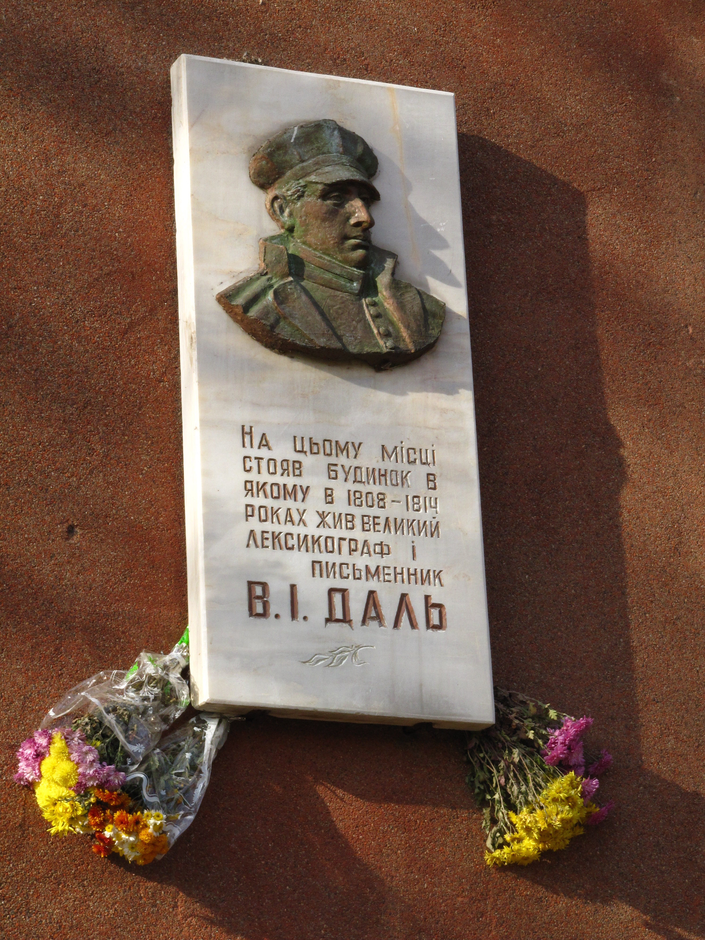 Volodymyr Dal's plaque in Mykolaiv